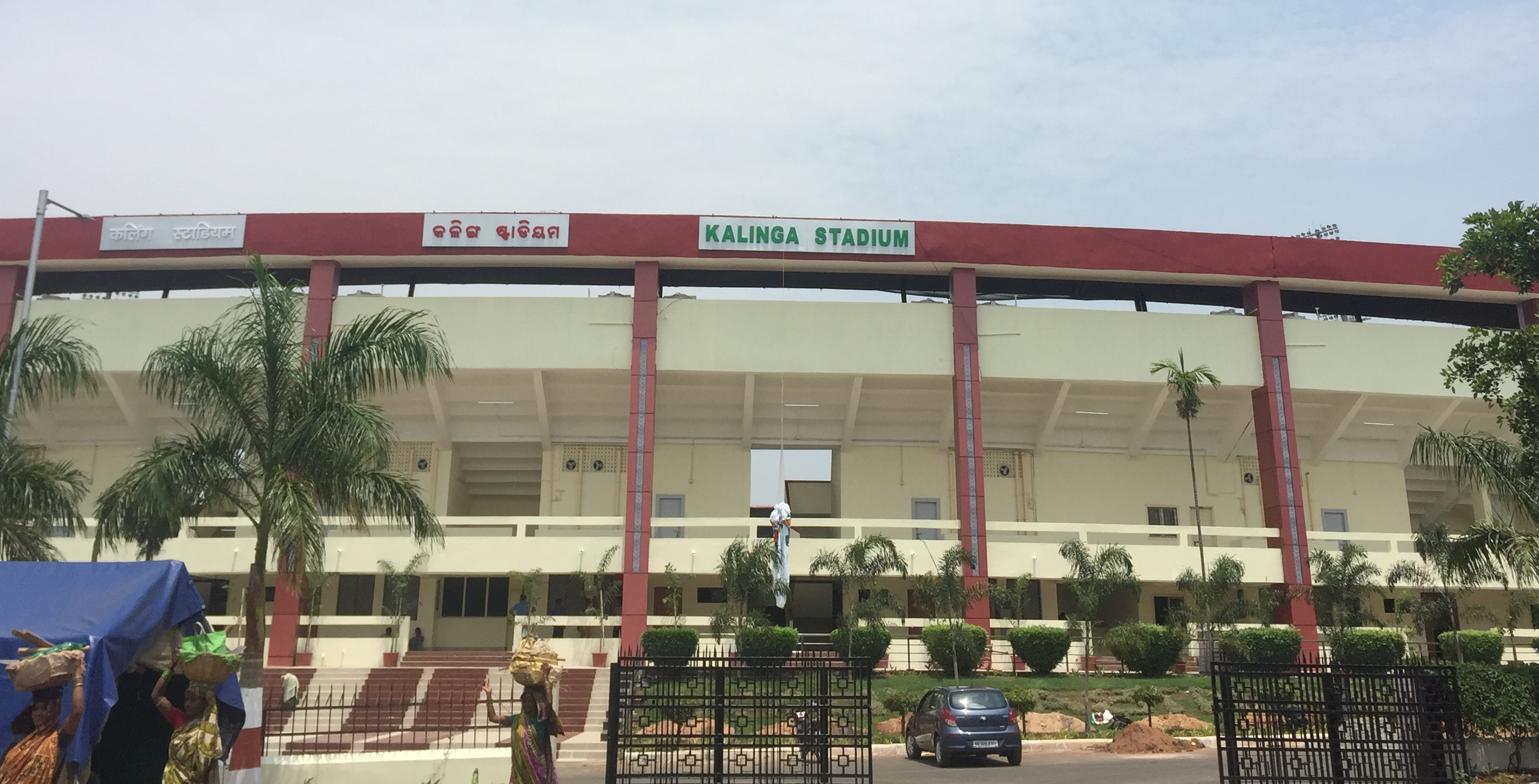 Kalinga Stadium in Bhubaneswar.